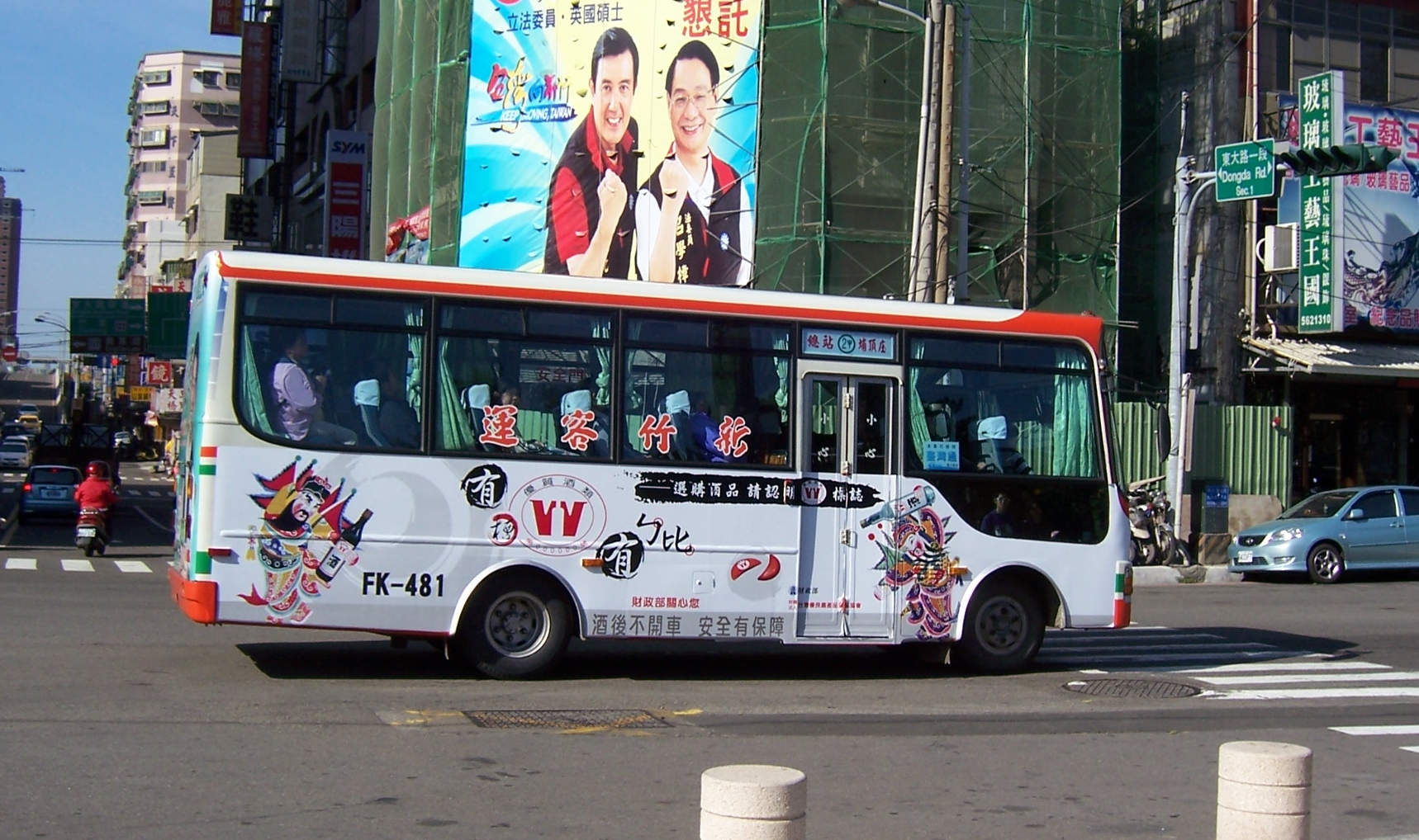 A bus in Hsinchu City,Taiwan. Taken in front of Hsinchu Park. 新竹客運Isuzu NQR中型公車FK-481，攝於新竹市新竹公園前。